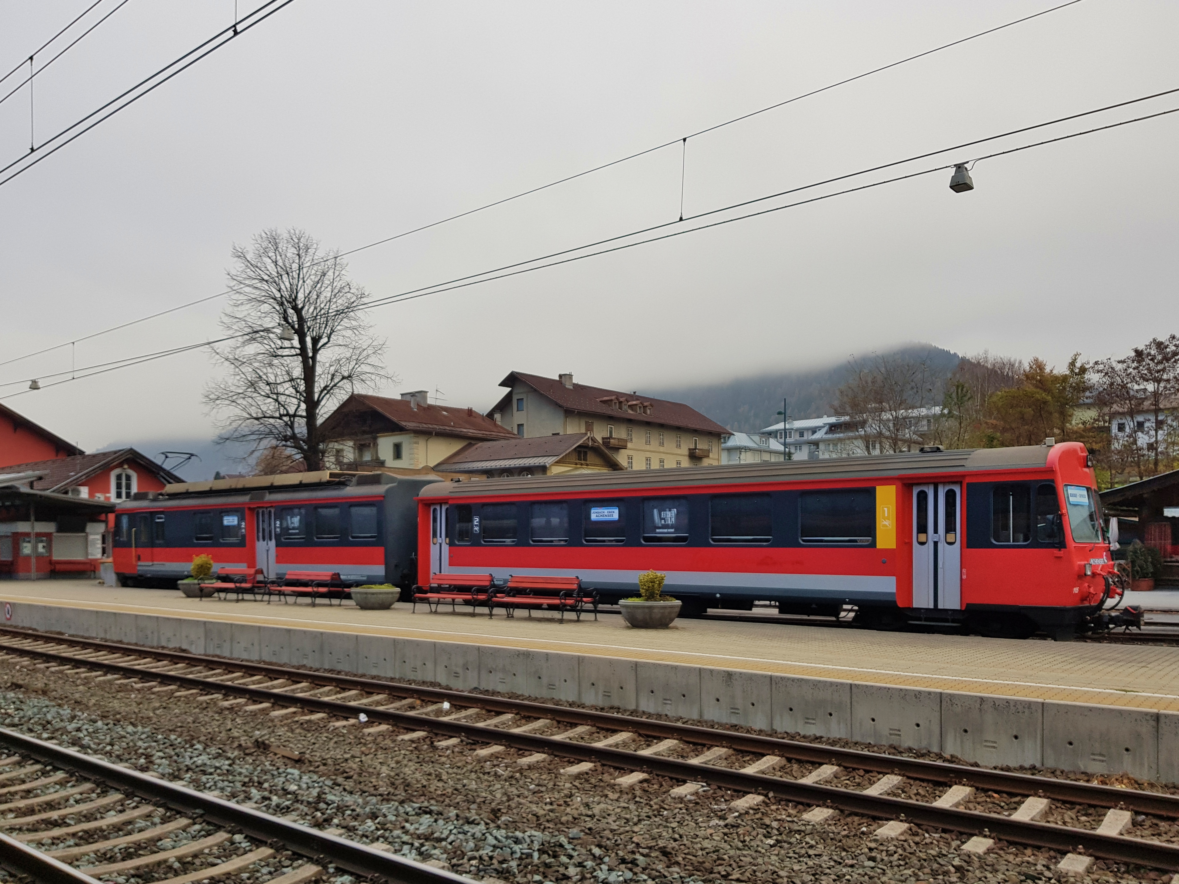 AB BDeh 4 4 in Jenbach